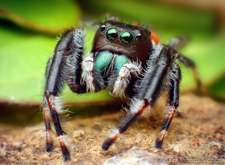 Adult Male Phidippus clarus Jumping Spider Here's a handsome little Phidippus clarus male I found last summer while out bug hunting with a friend. I spotted him from quite a distance, and instantly recognized the species due to those vivid red bits on the abdomen (see the shots below in the comment section). Upon photographing him and reviewing the shots I had taken - I noticed those beautiful grey metallic scales down the center of his abdomen. I apologize for the small upload size - this was a fairly significant crop. On another note - I finally got around to putting together a simple site for - so if you're into arthropod photography, art, and bad singing - you may want to take a look... I've recieved a few e-mails recently from folks looking to buy prints - how many of you would actually be interested in buying some nice prints of my photos or maybe even a book?